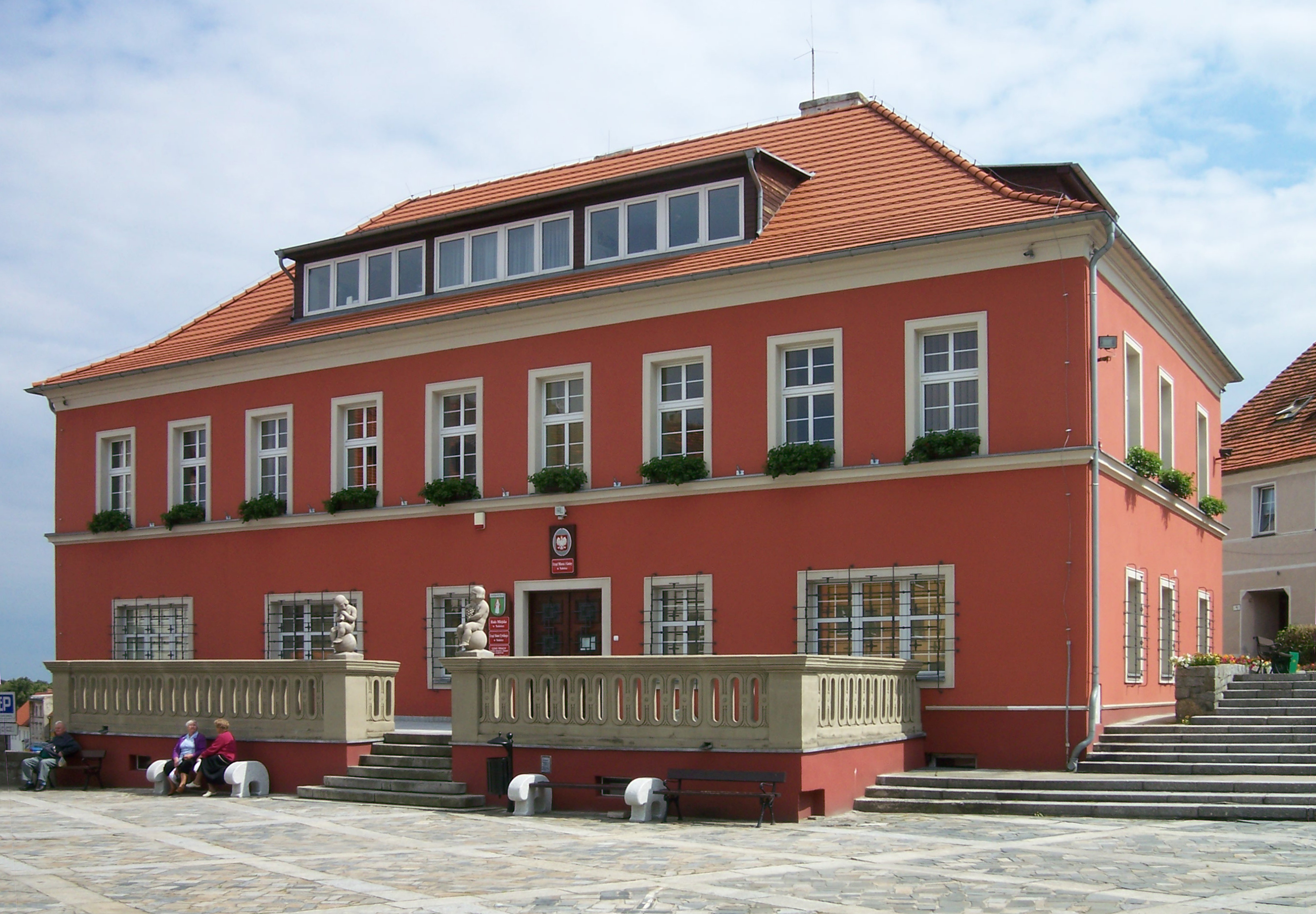 Town hall in Sobótka, Poland